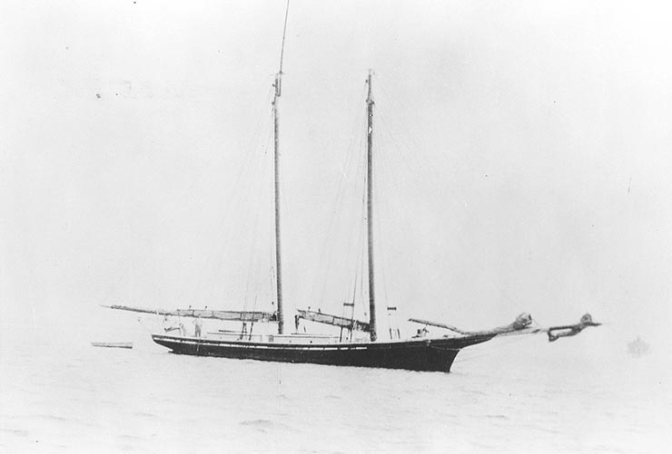 The civilian schooner Nellie Jackson sometime prior to her United States Navy service as the patrol vessel .